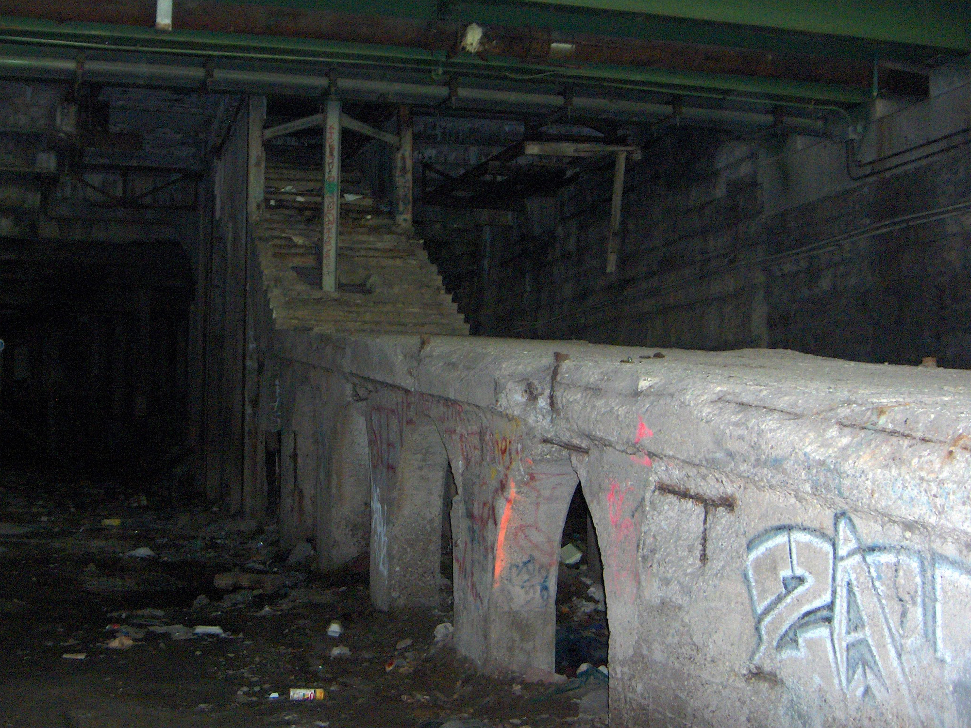 Steps descending into the Court Street Station of the former Rochester Subway